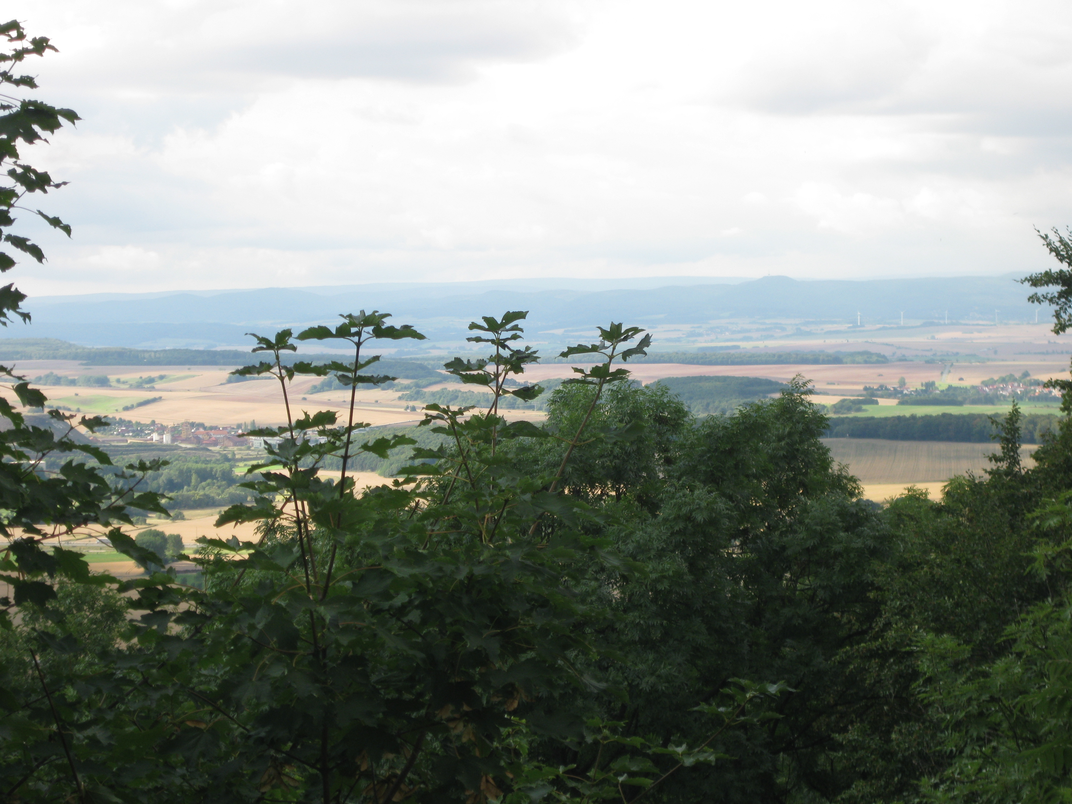 Castle Lohra view